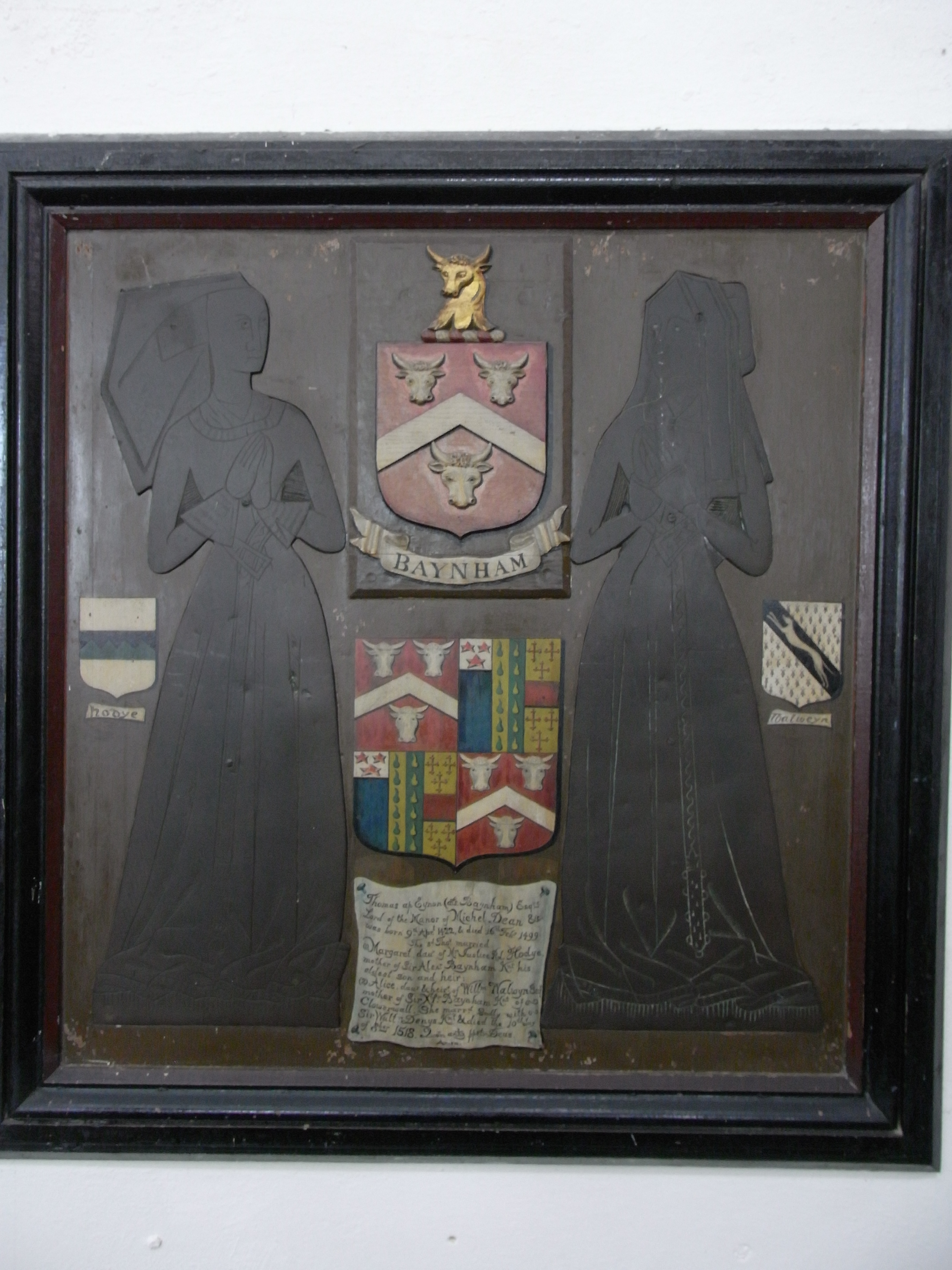 St Michael and All Angels parish church, Mitcheldean, Gloucestershire: monumental brasses of the wives of Thomas Baynham (died 1499/1500): (1) Margaret Hody (left) and (2) Alice Walwyn (right). See Transactions of the Bristol & Gloucestershire Archaeological Society, vol. 6, 1881-2, Maclean, Sir John, The History of the Manors of Dene Magna and Abenhall, and their Lords, pp. 123-165. The brasses were originally in the north aisle but were moved to the present painted wooden panel in the 19th century. The brass of Sir Thomas Baynham, which would originally have been the central figure, was lost before the 19th century. (BGAS, vol.6, p.131, note 3)